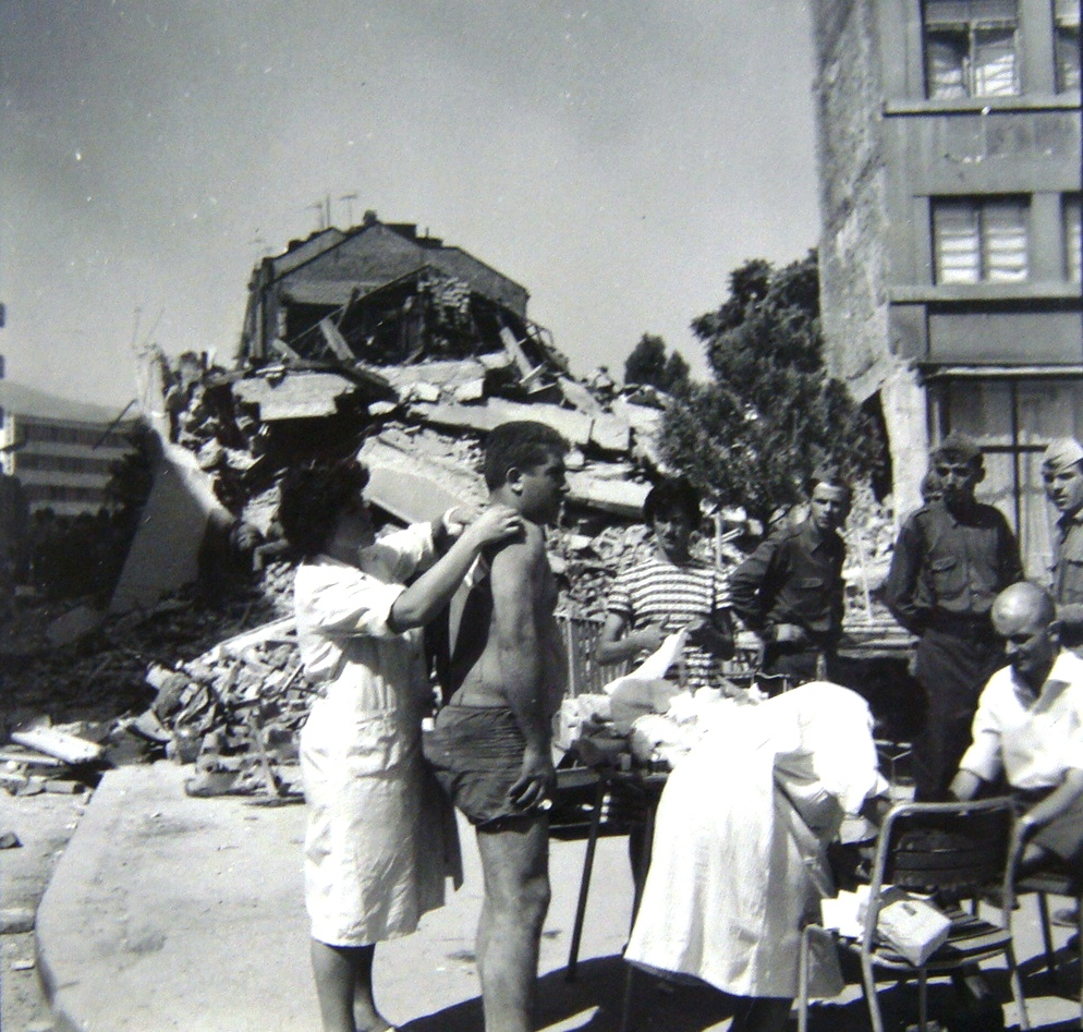 1963 Skopje earthquake: giving first aid to casualties in front of hotel Macedonia This media file is produced by Wikipedian in Residence in Category:Wikipedian in Residence at DARM in 2016.